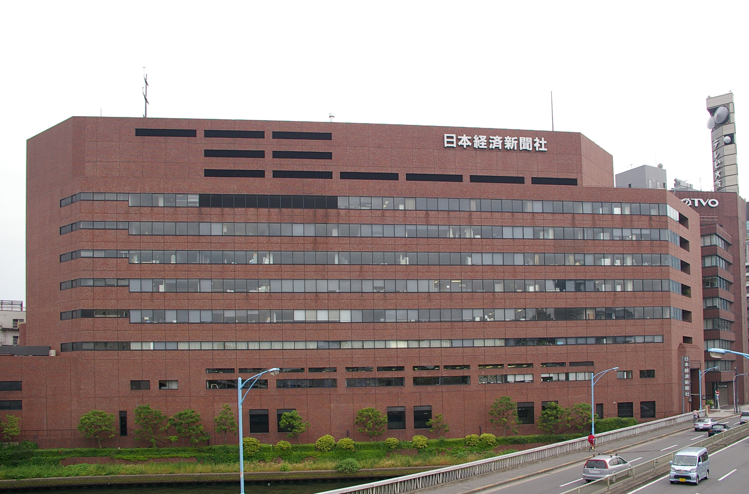 Photograph of Osaka head office of Nikkei Inc. (Nihon Keizai Shimbun) in Chuo-ku, Osaka, Osaka Prefecture, Japan.